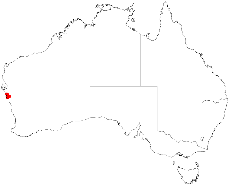 Anigozanthos kalbarriensis occurrence data Downloaded from Australasian Virtual Herbarium 12 May 2017